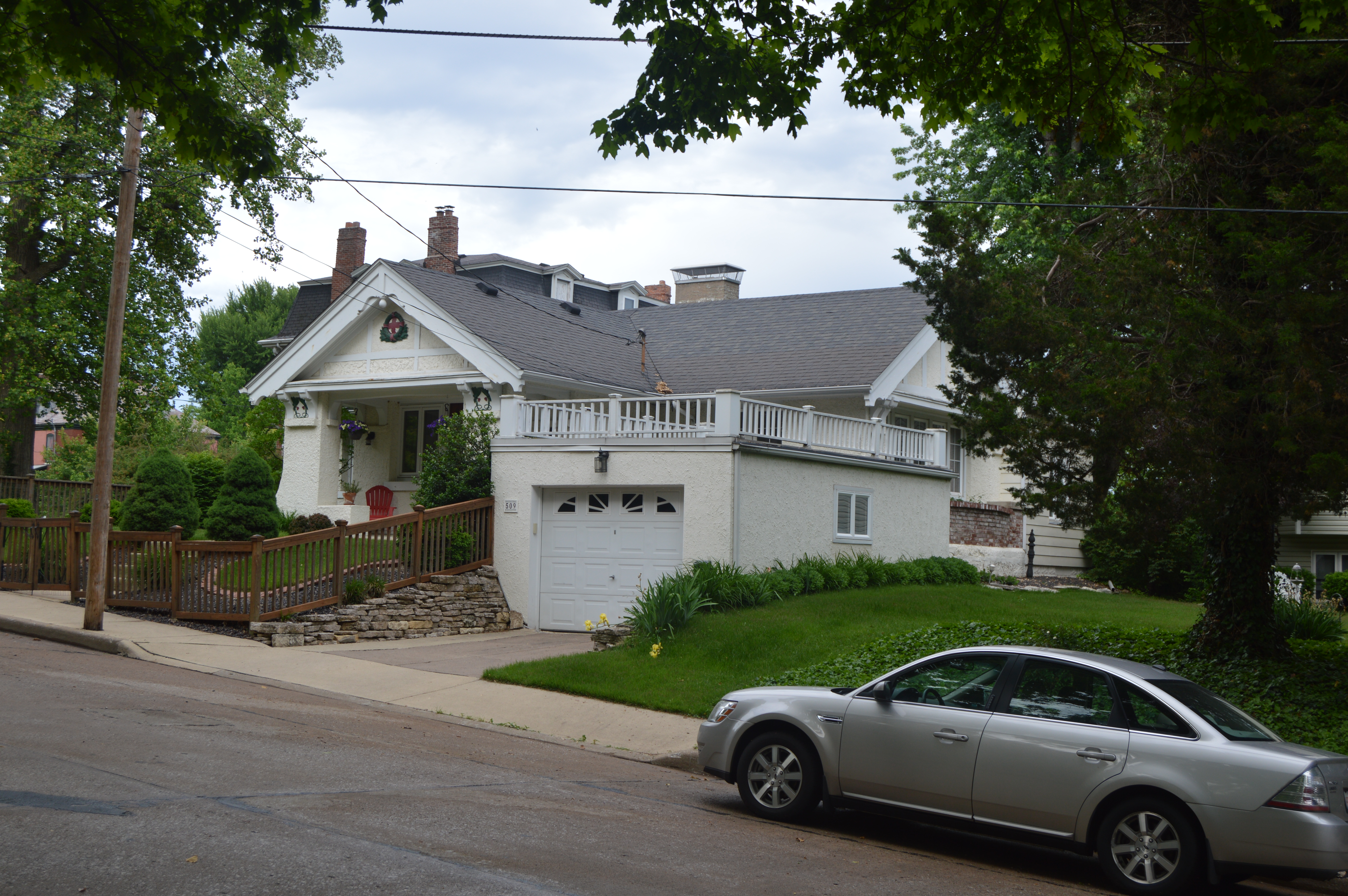 Front of the Alton Chapter House of the American Women's League (now a private residence), located at 509 Beacon Street in Alton, Illinois, United States. Built in 1909, it is listed on the National Register of Historic Places.